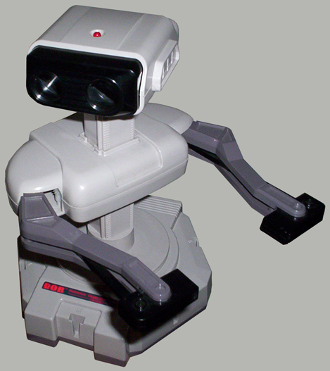 Photo by Caleb Goessling of Nintendo's Robotic Operating Buddy, submitted by the photographer.